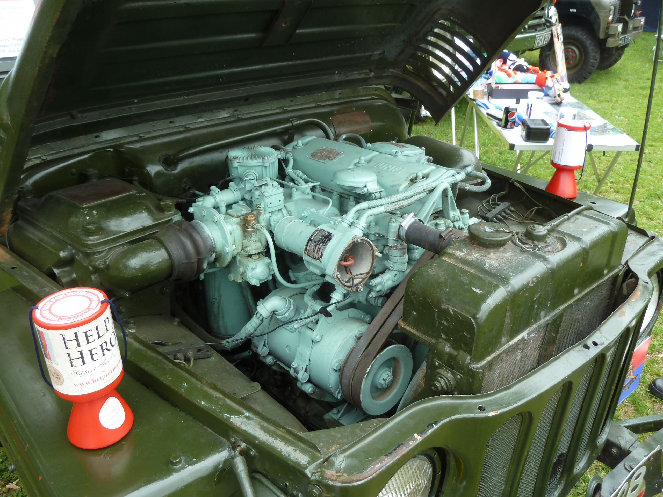 Rolls-Royce B40 engine in an Austin Champ Abergavenny steam rally, 2015.